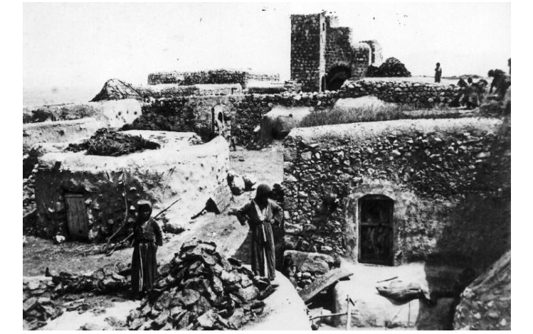 Hulayqat, before depopulation